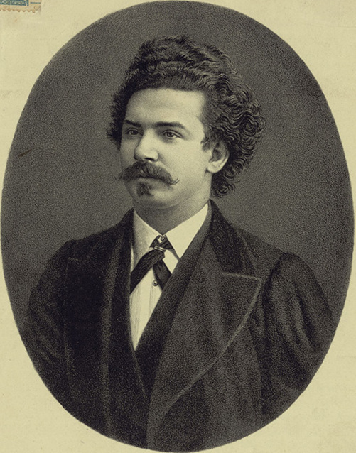 Portrait of Stefano Gobatti, composer (1852-1916).